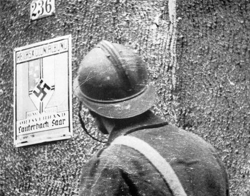 In a german village during the Saar offensive, a french soldier looks at a poster from a german colonial league. Plate at the Colonial Office in Lauterbach, the soldier belonged to the French 151ème R.I., 42ème Division d'Infanterie, September 9, 1939.